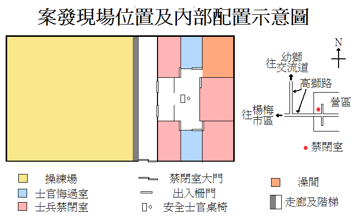 Self-made (For reference information, see the Map Source References：禁閉室規定周詳 卻能操死人、立委：洪案禁閉室無技術死角 and 立委黃偉哲說明269禁閉室問題多.)